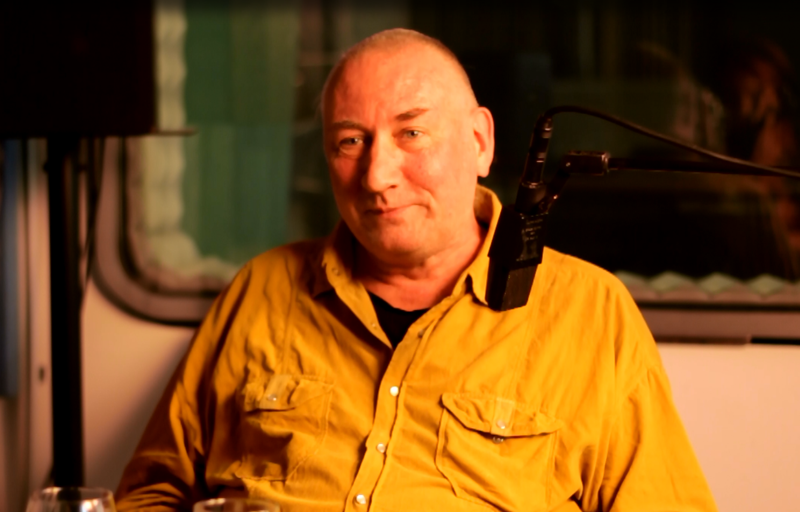 Günther Rabl, electroacoustic composer